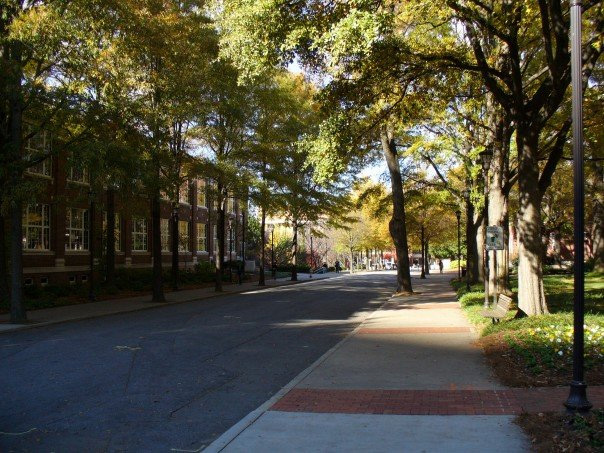 A view of the pedestrian section of Cherry Street on the Georgia Tech campus.